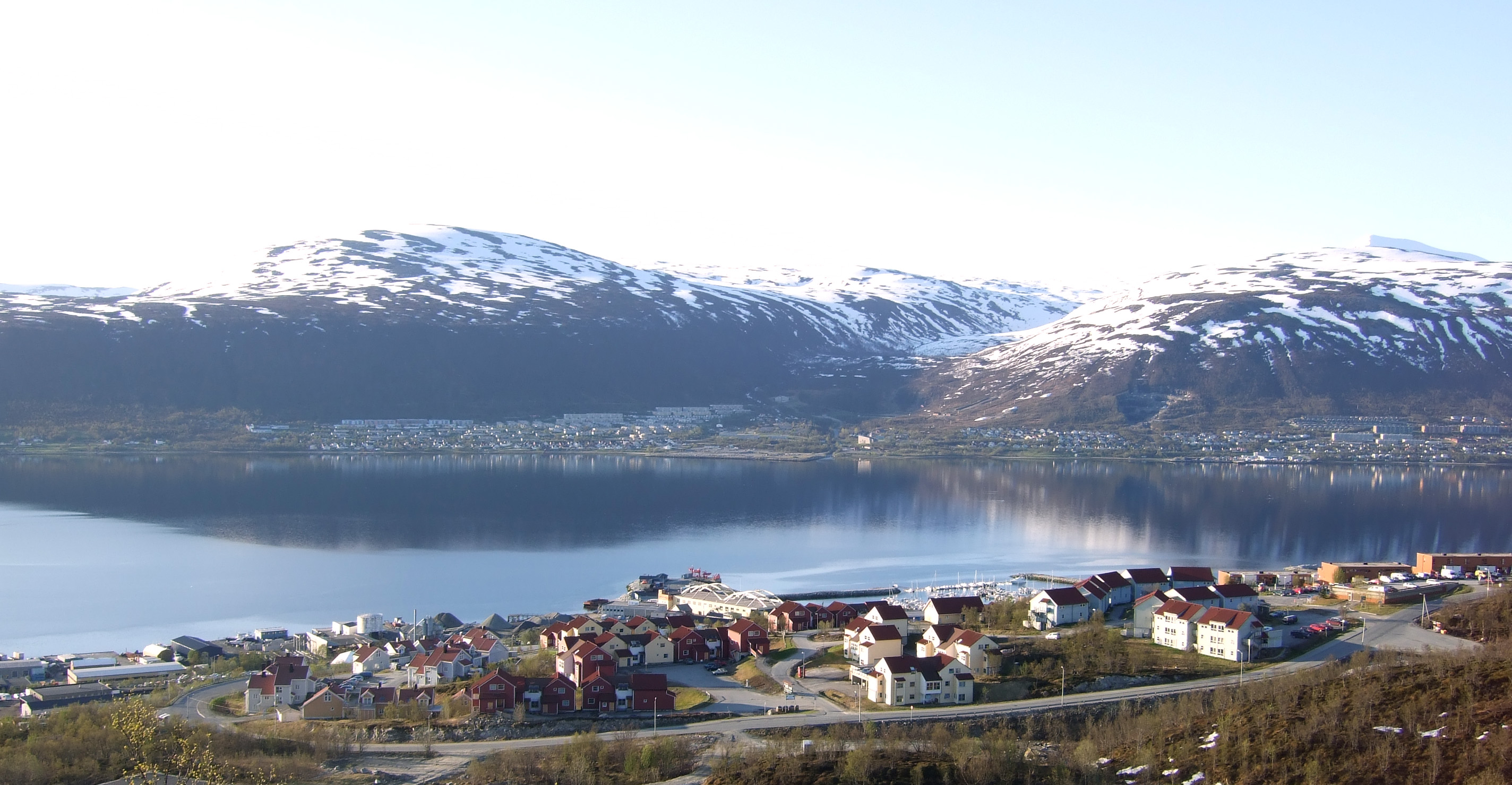 Kroken, a suburb of Tromsø in Northern Norway as seen from the north eastern part of the Tromsøya island.